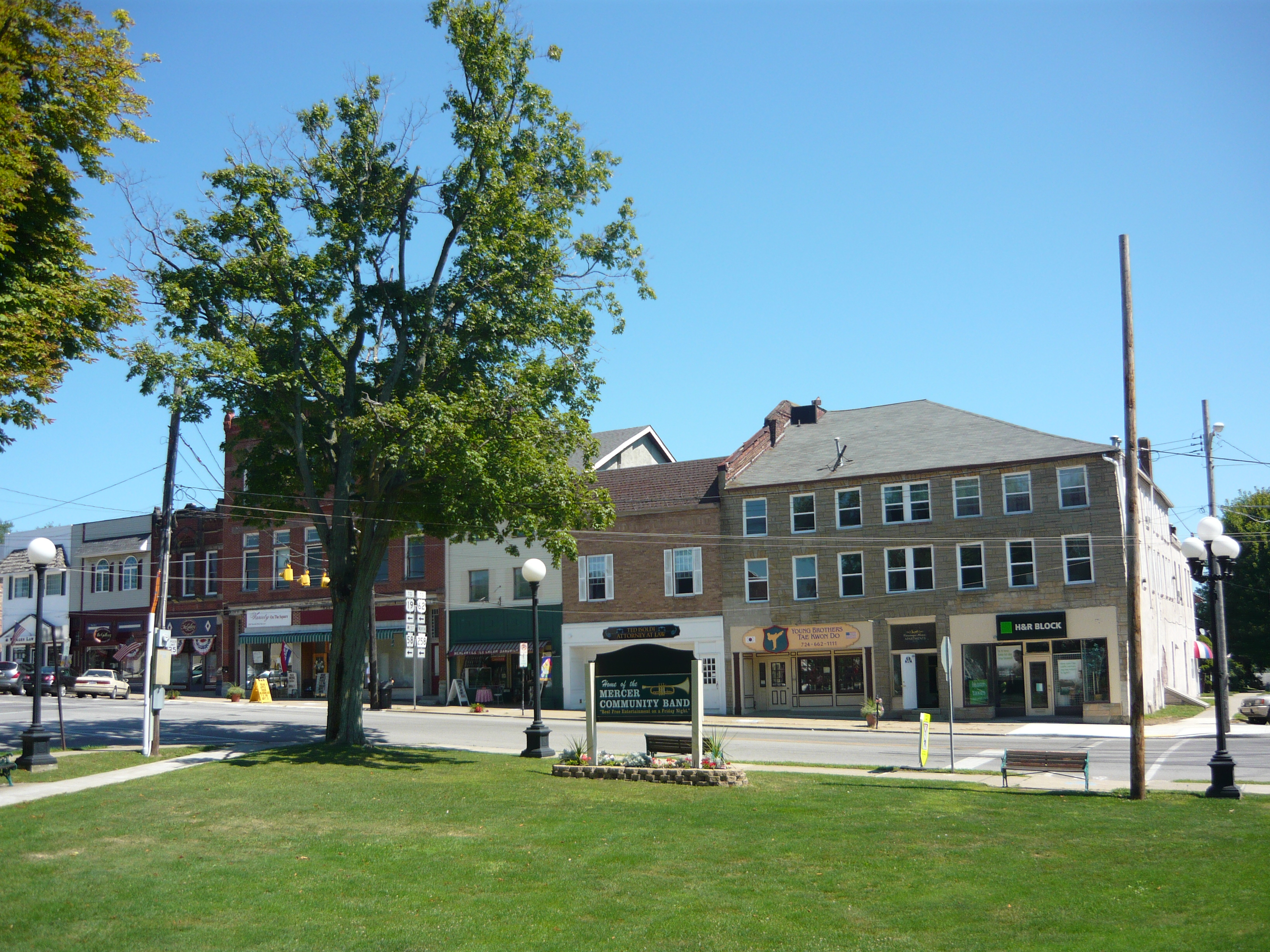 Businesses along Pitt Street, Mercer, Pennsylvania. Photo taken from courthouse grounds.